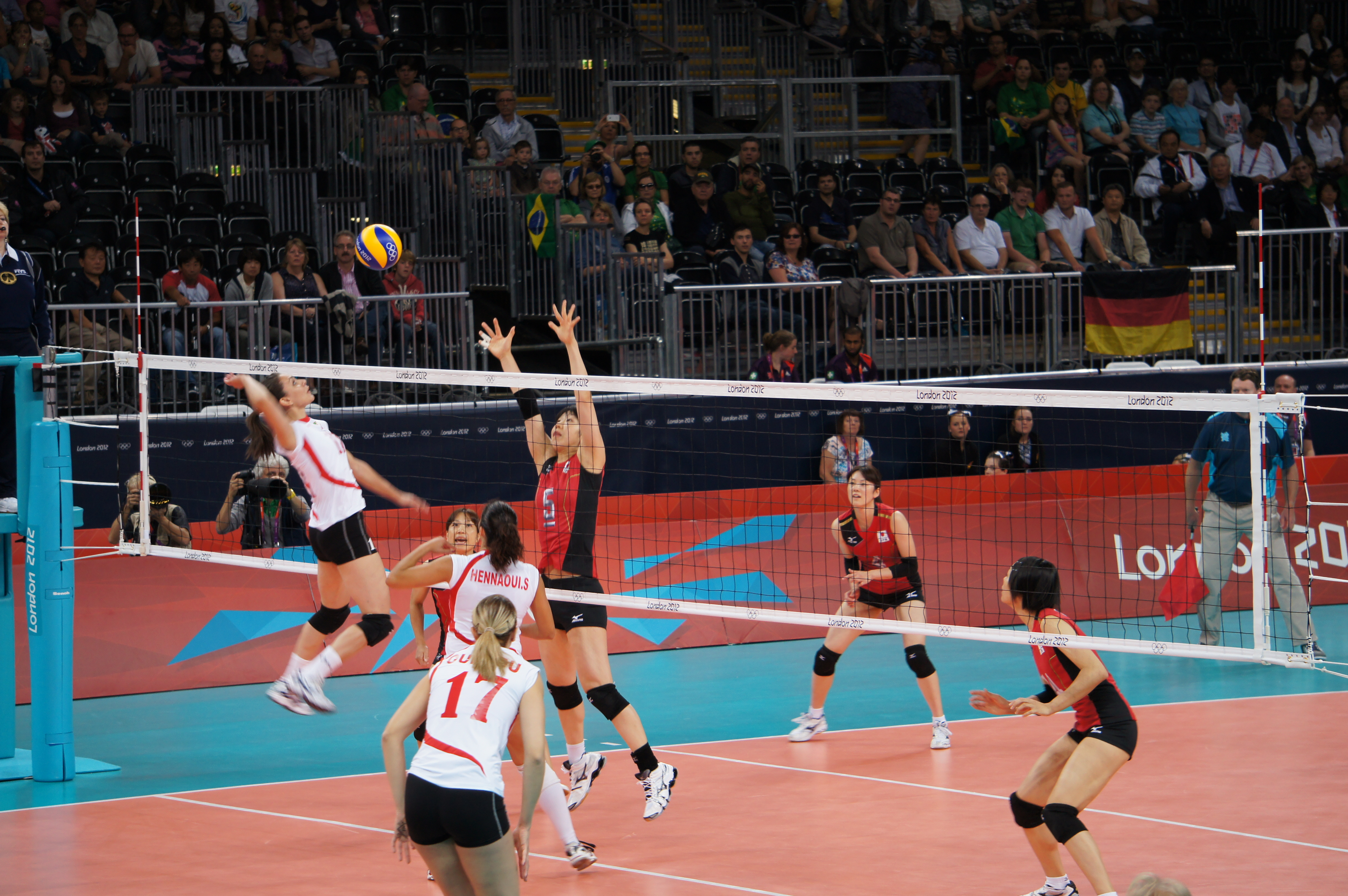 Algeria and Japan women's national volleyball team at the 2012 Summer Olympics